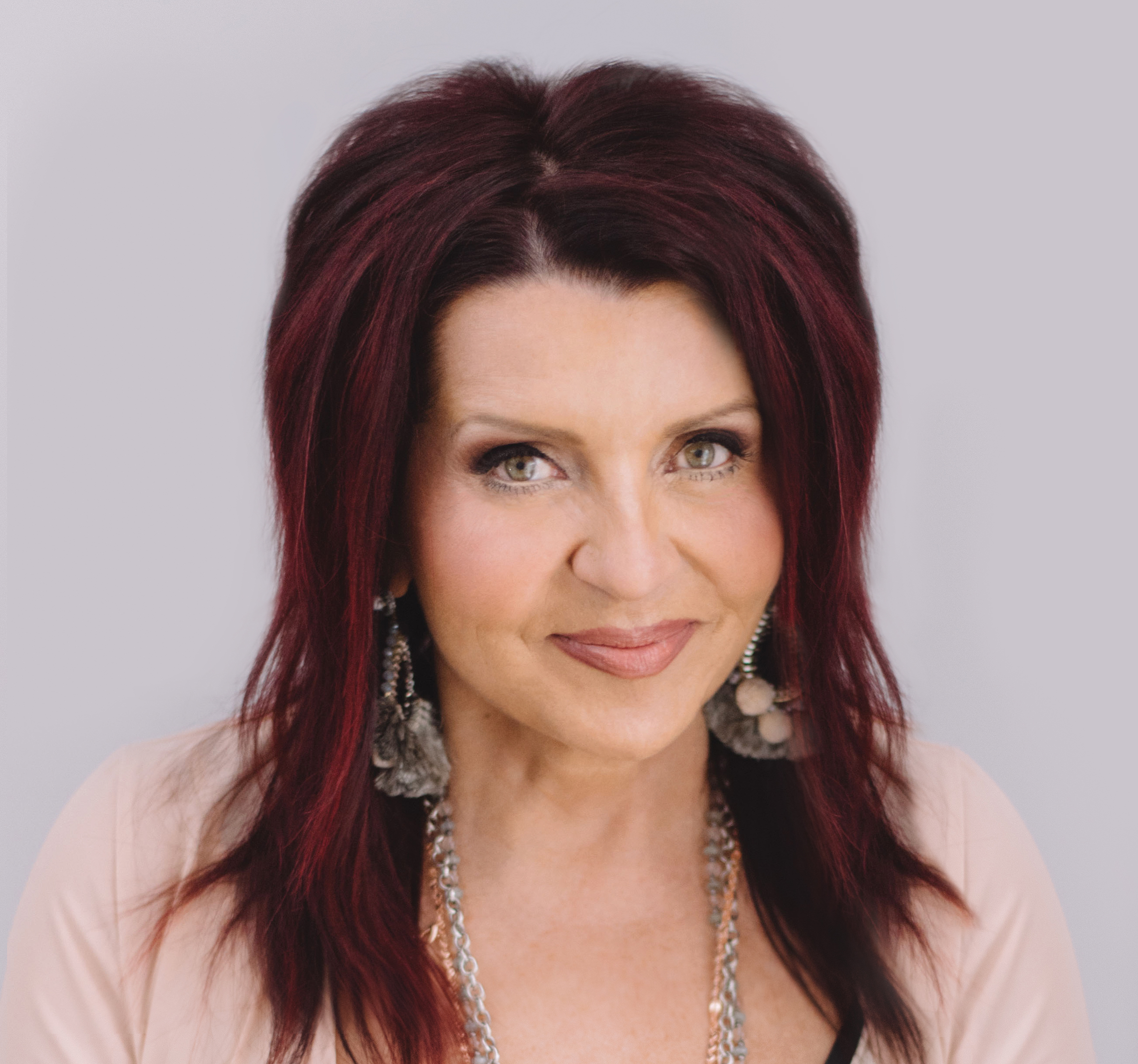 photo of Colette Baron-Reid from 2019